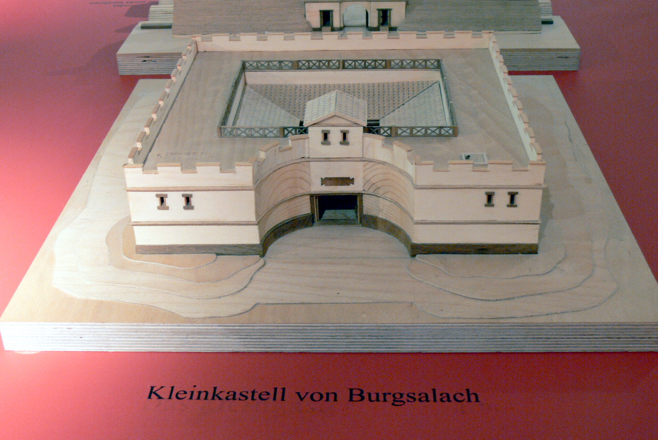 Weißenburg ( Bavaria ). Roman Museum: Modell of the ancient Roman castellum in Burgsalach.